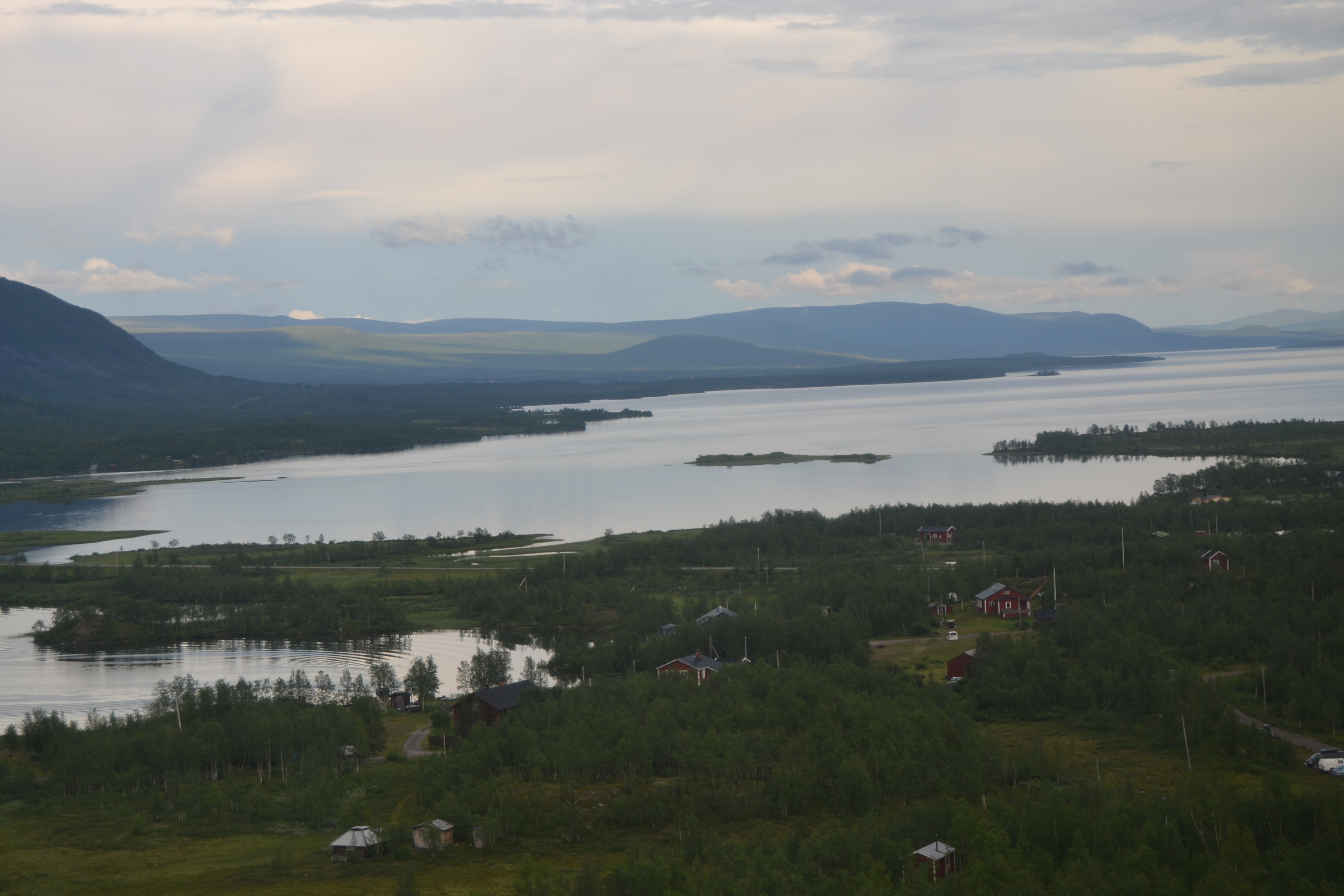 Lake Paittasjärvi and Nikkaluokta from air in Kiruna och Gällivare, Sweden